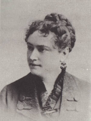 Almira Russell Hancock (1832–1893) The wife of General Winfield Scott Hancock, she played prominently in the oft-told story of the friendship between her husband and Confederate General Lewis Armistead.